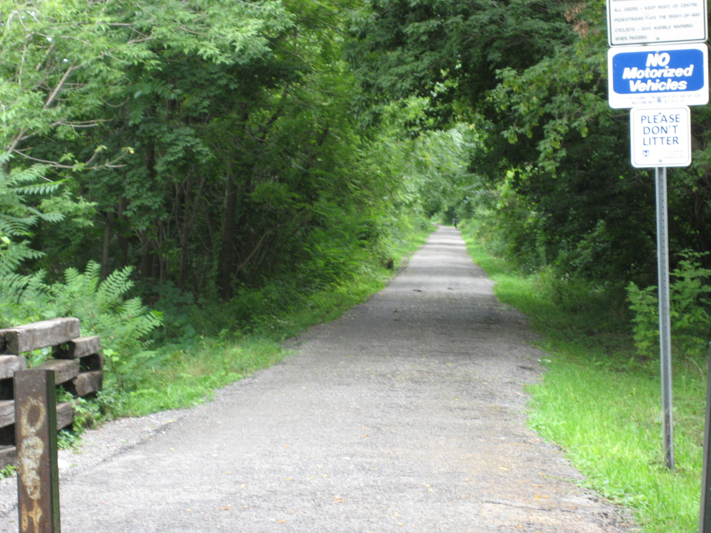 Chedoke Rail Trail, Hamilton, Canada.